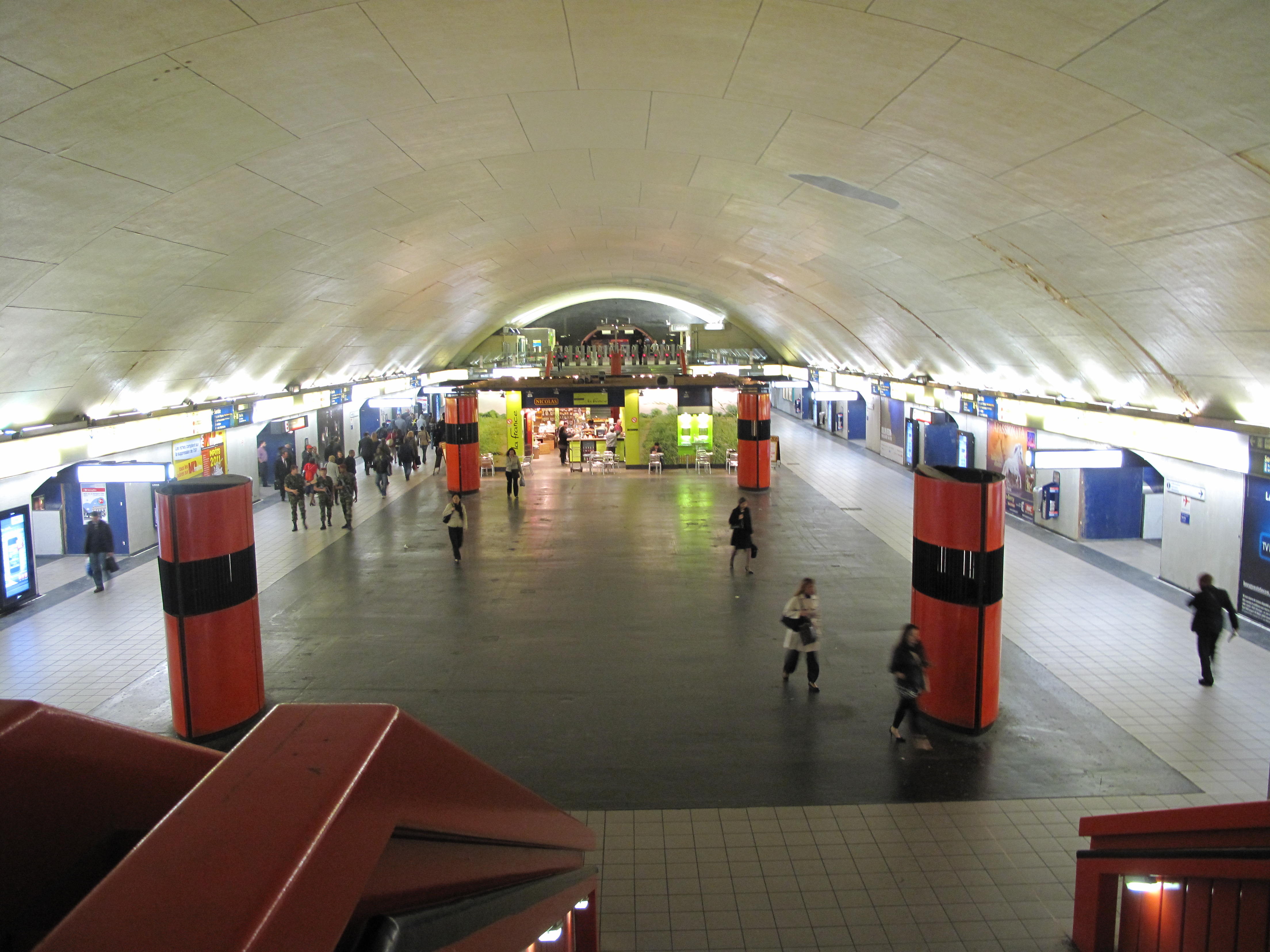 The main hall of the RER (Rapid transit) station Auber, Paris 9th arrond.